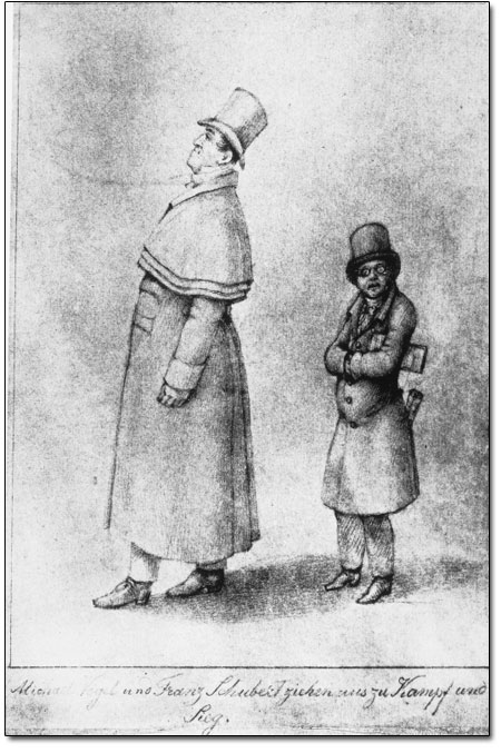 This is a pencil-on-paper caricature of singer Johann Michael Vogl (left) and composer Franz Schubert (right). The caption (in German) reads: Michael Vogl and Franz Schubert go out for battle and victory